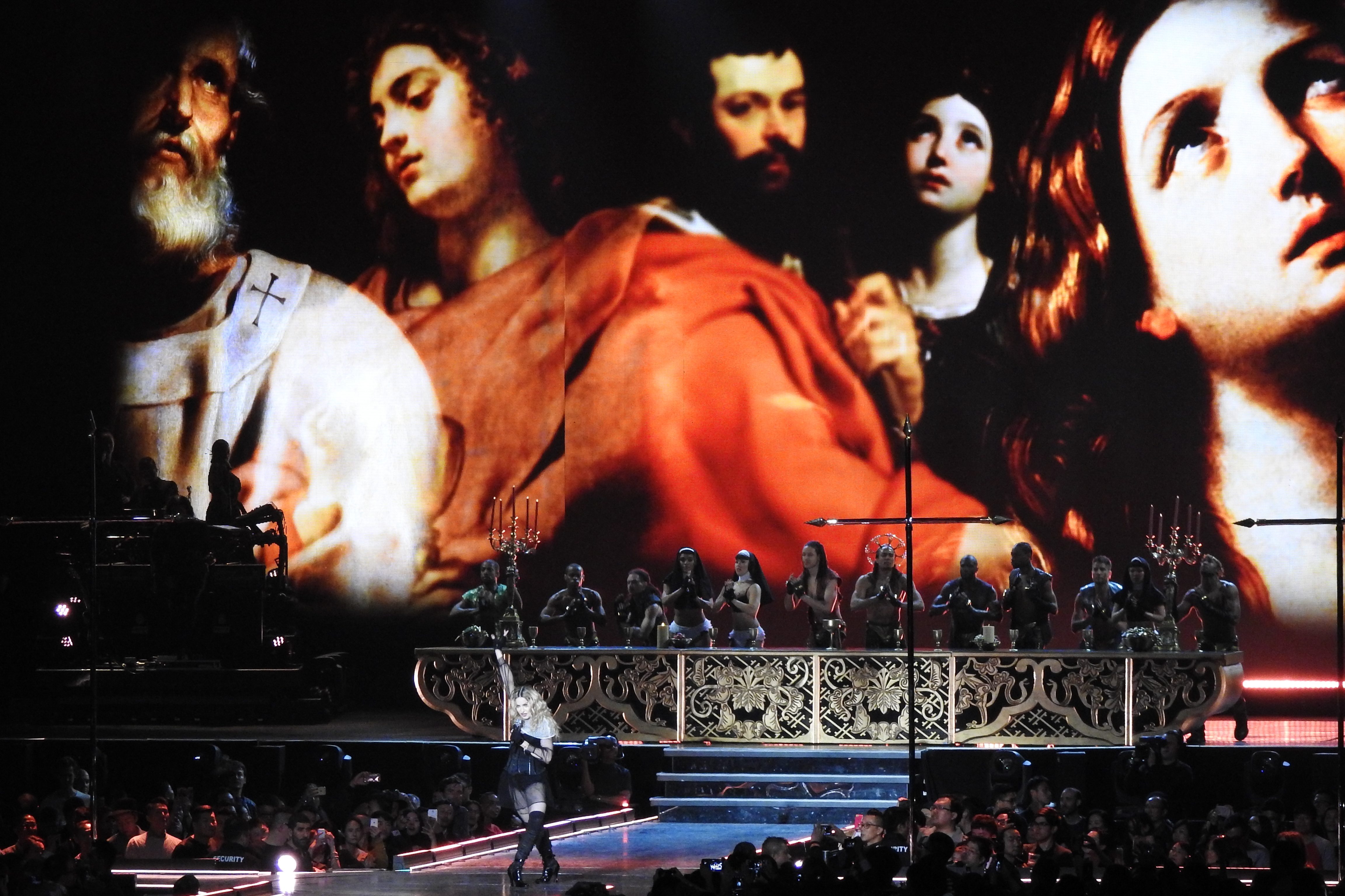 7247-Madonna-Rebel-Heart-Tour